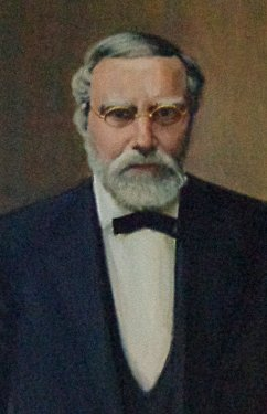 Detail of a painting by Verner Thomé (1878-1953)